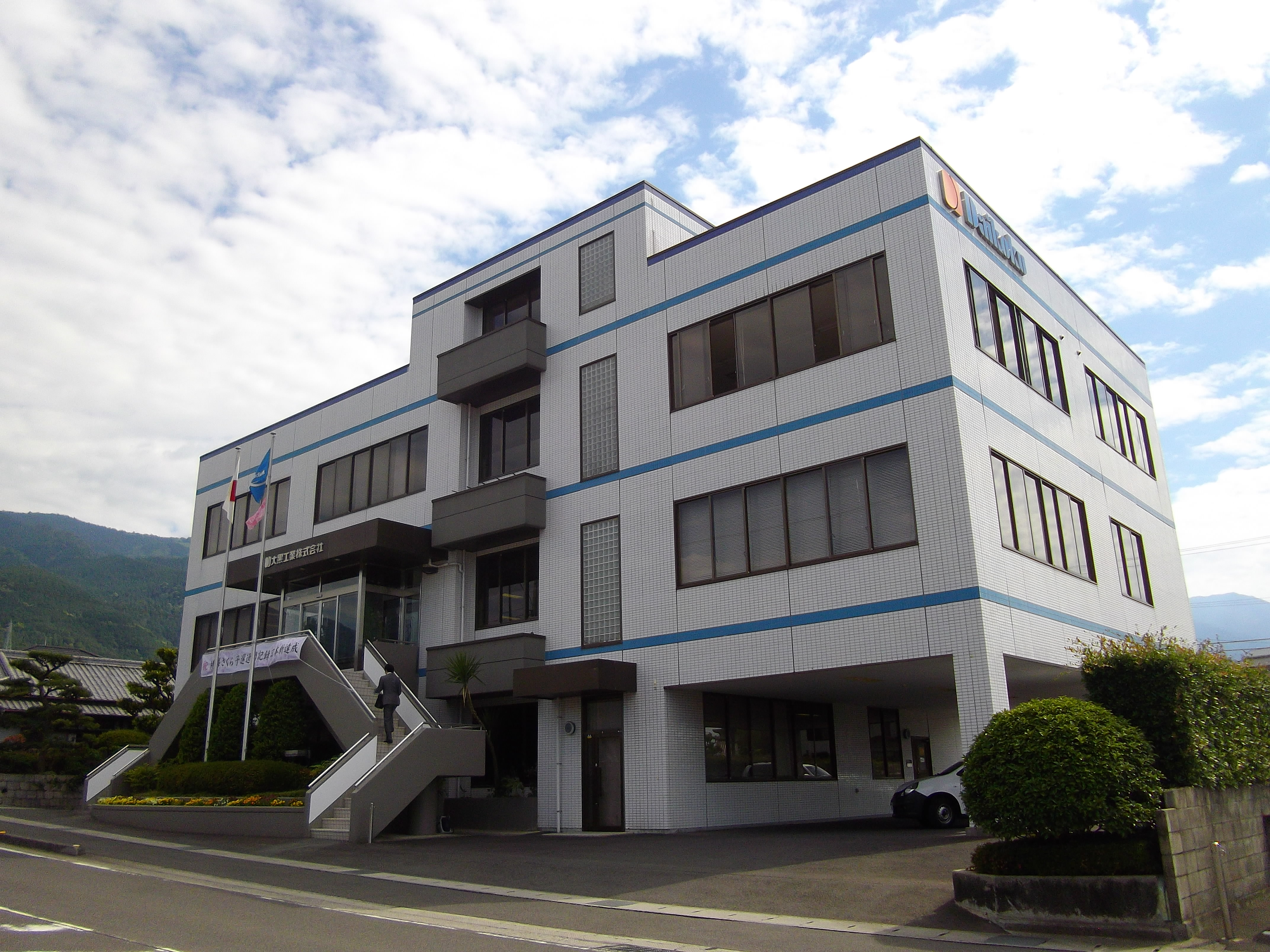 Daikoku Industry Co., Ltd. Head Office in Shikokuchuo city, Ehime prefecture, Japan.